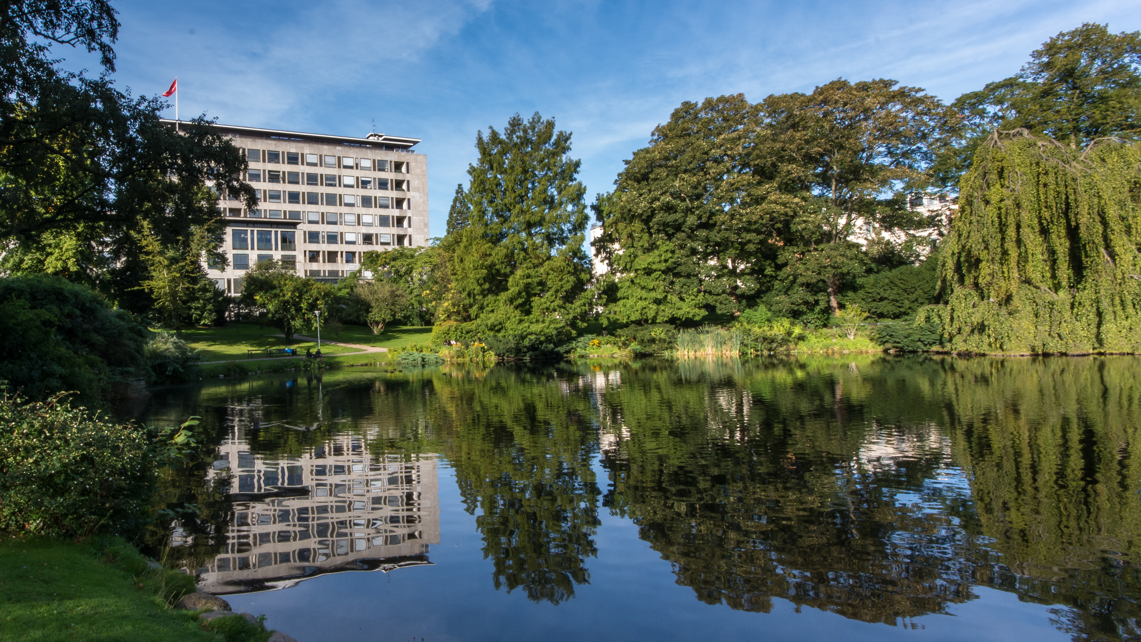 Realdania's HQ at Jarmers Plads 2, as seen from the "Ørstedespark".